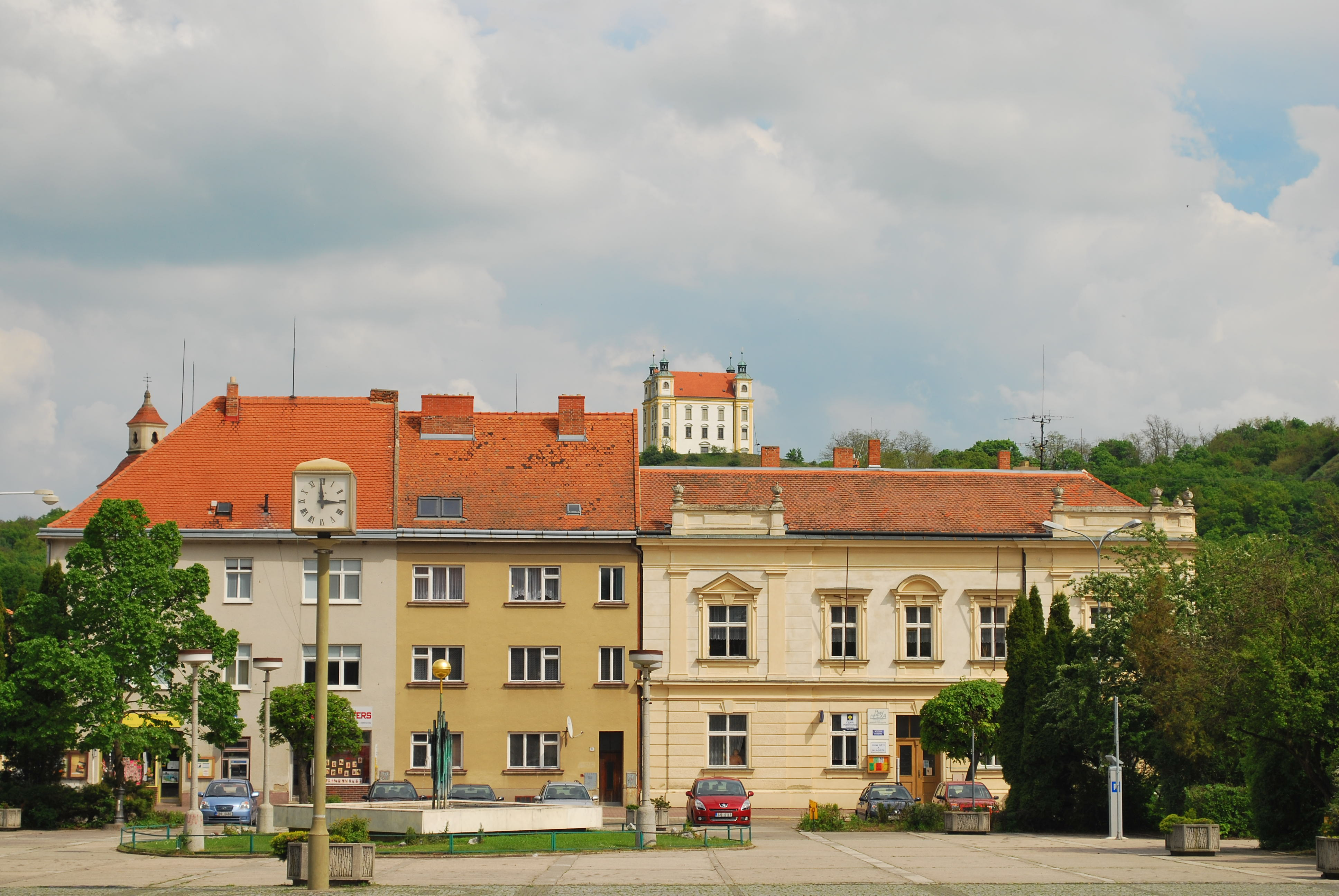 Moravský Krumlov in Znojmo District, Czech Republic. Square Náměstí T.G. Masaryka, chapel of St. Florian from the years 1695-1697 in the background.